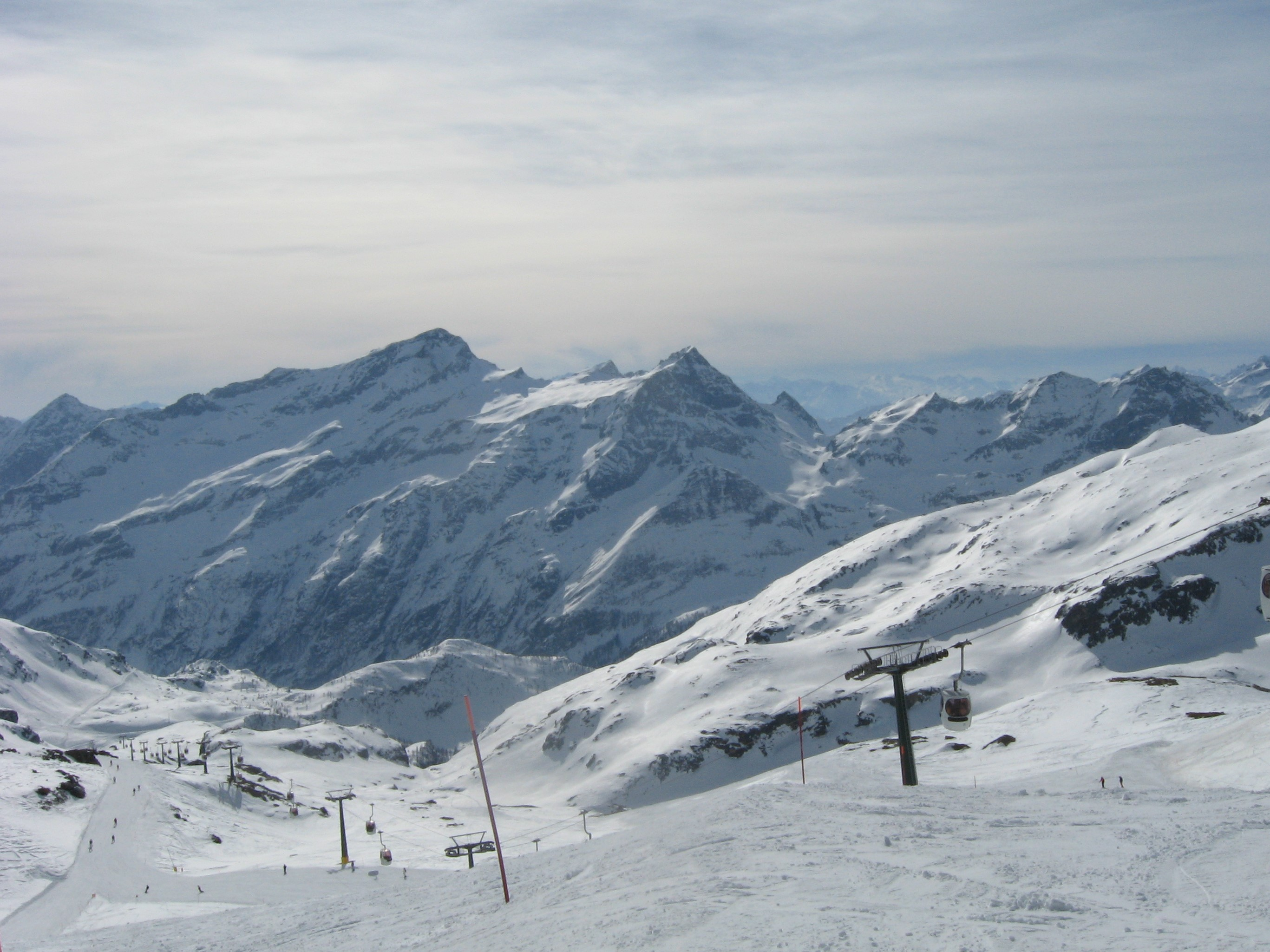 View West from Passo di Salati (Val'd Aosta/Piemonte)